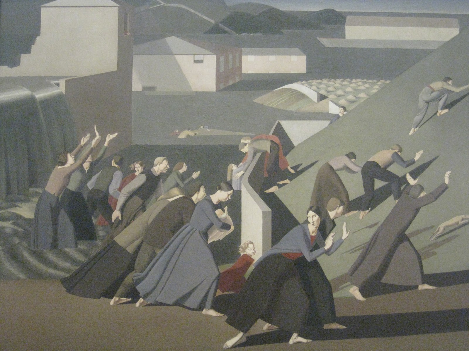 The painting The Deluge by Winifred Knights. Oil on canvas. In the foreground people flee the rising waters towards high ground, while, in the upper right, Noah's ark floats in the distance. Knights can be seen in the foreground of the painting.